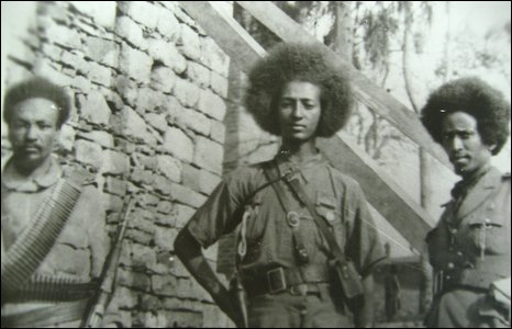 Three Ethiopian Patriots ("arbegnoch") in 1940. From left to right: unknown, Jagema Kello, Yohannes Tegru.